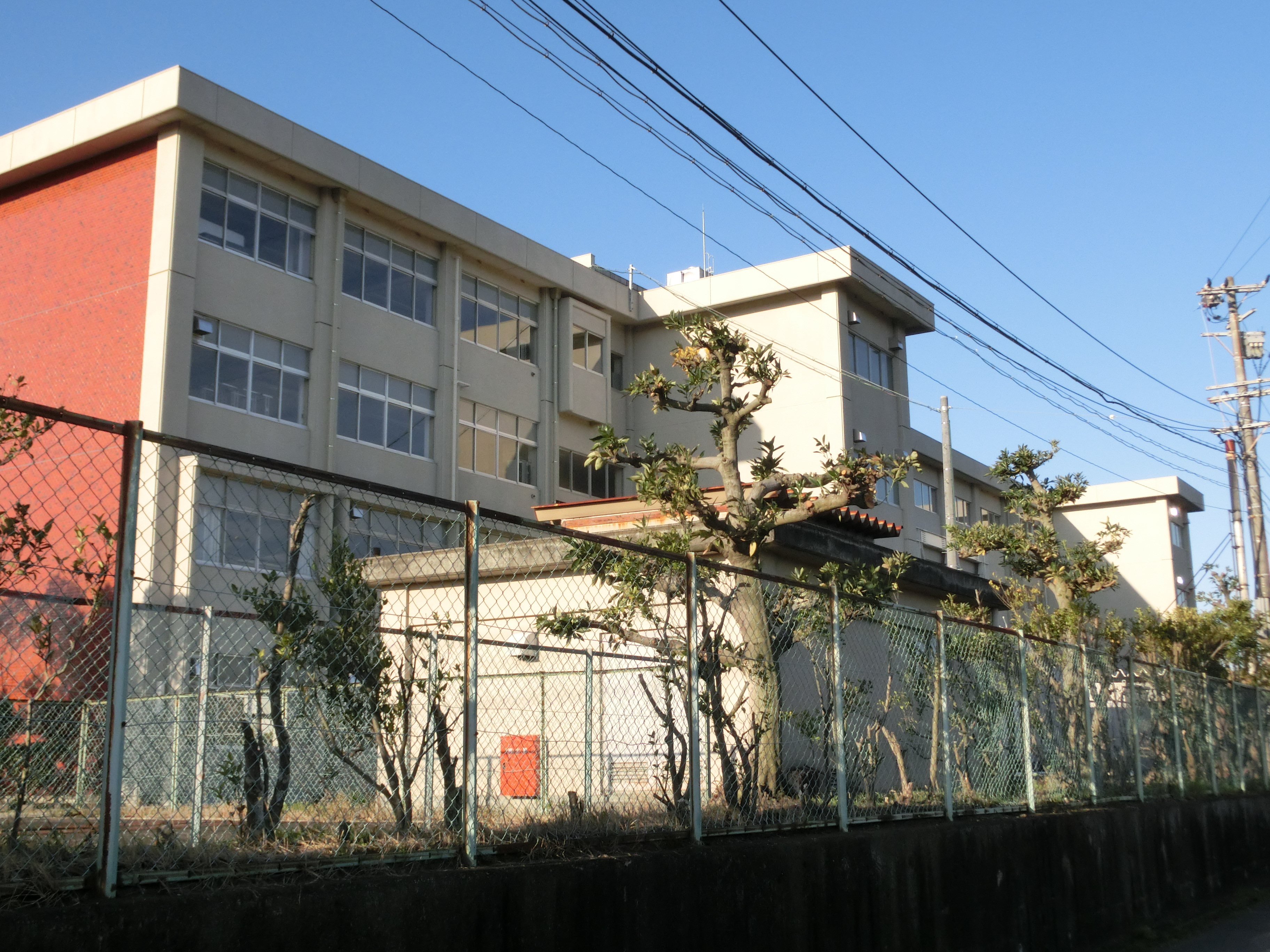 Tsushima-Higashi High School